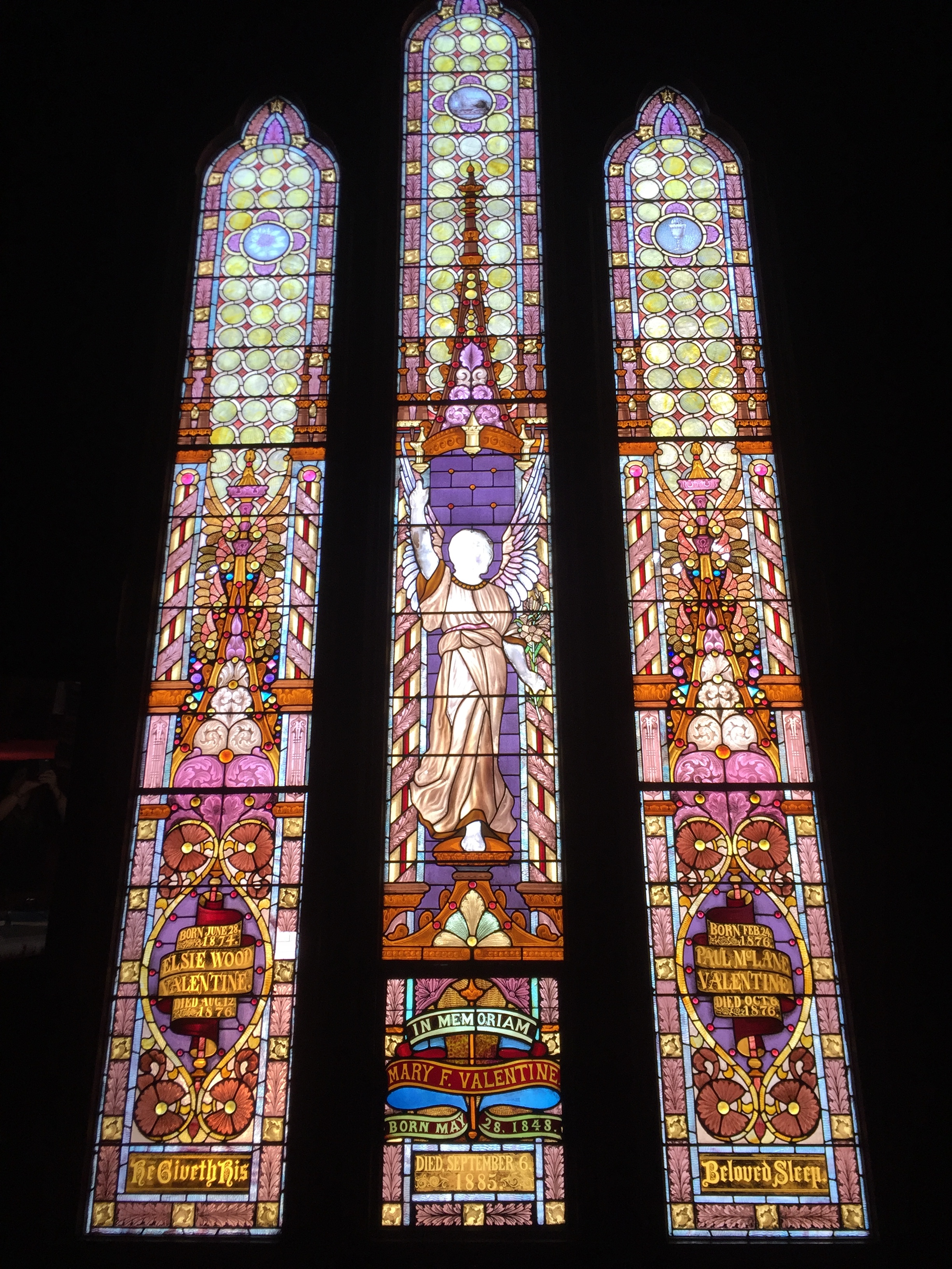 Classic art glass church memorial window of John J. Valentine, Sr. deceased family members at St. James Episcopal Church, Oakland CA. Names depicted are Mary F. Valentine, children Elsie Wood Valentine, and Paul McLane Valentine. Window shows need of repair and updating due to seismic activity and age.